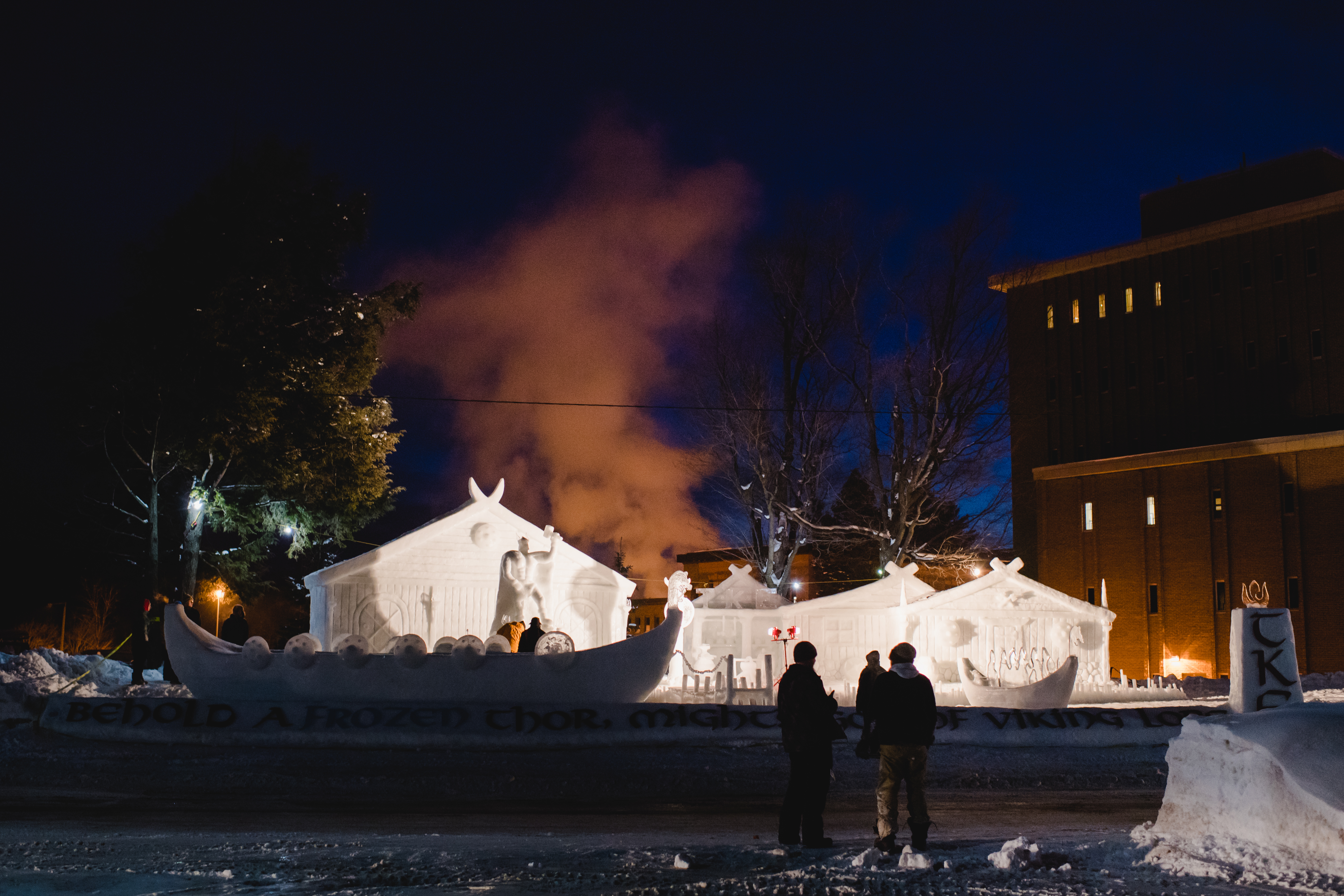 Snow statue built by students during Michigan Tech's annual Winter Carnival.